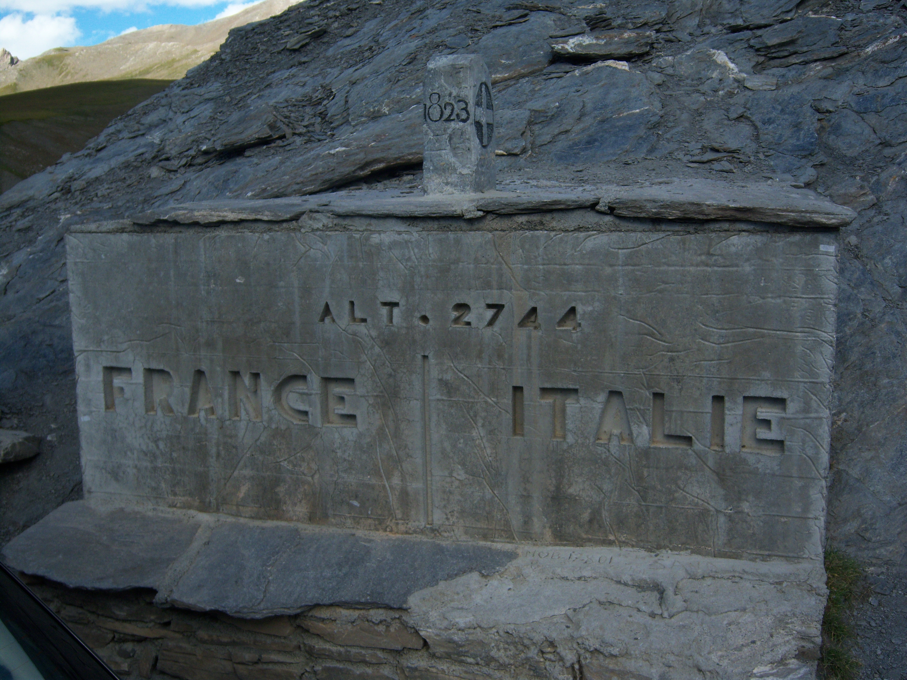 Road sign of the Agnello's pass